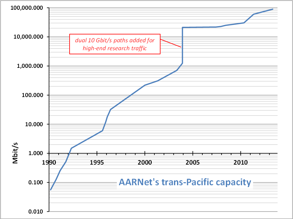 Graph of AARNet's trans-Pacific Internet capacity growth over time. Indicates 1.6 million-fold growth over 23 years to 2013 which equates to an average doubling time of international capacity of only 13 months. Source data points as published at: AARNet - 20 Years of the Internet in Australia - 1989–2009 by Glenda Korporaal, 2009. ISBN 978-0-646-52111-4; AARNet Annual Reports and AARNet Network Maps all as downloaded 2-November-2013.